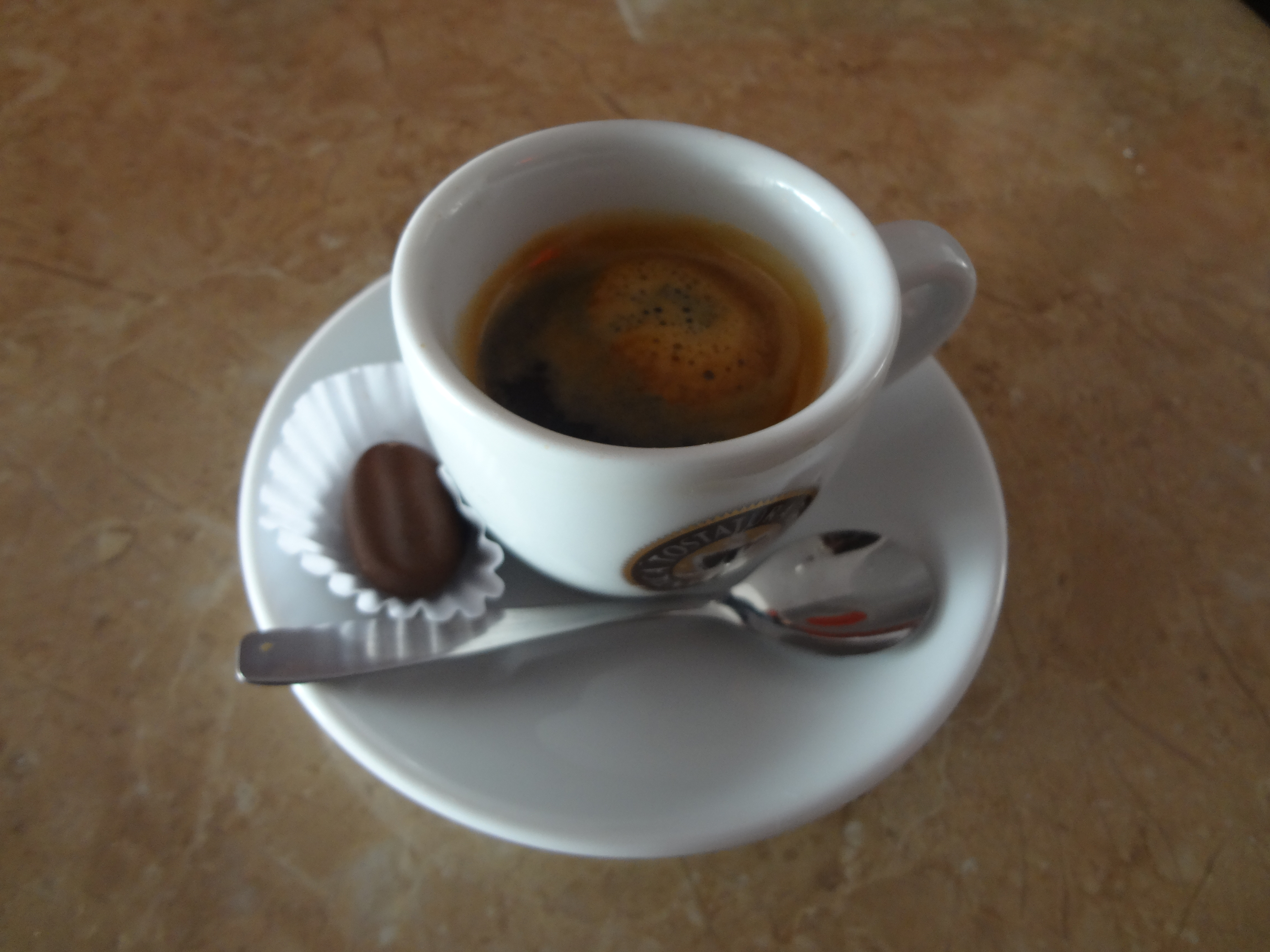 (A Donde Vamos, Quito) Chocolate, Espresso Photography by David Adam Kess